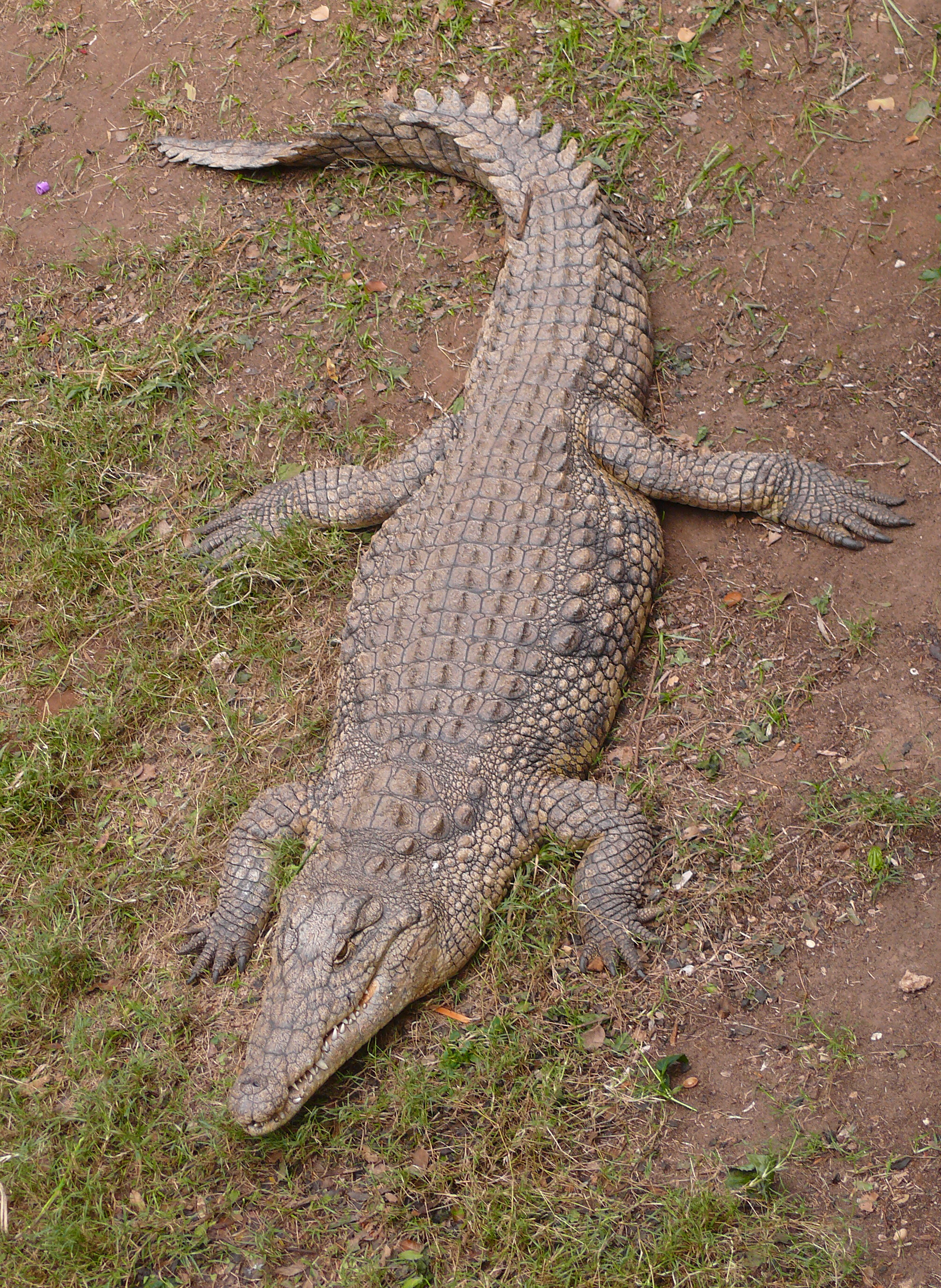 Nile crocidile (Crocodylus niloticus)